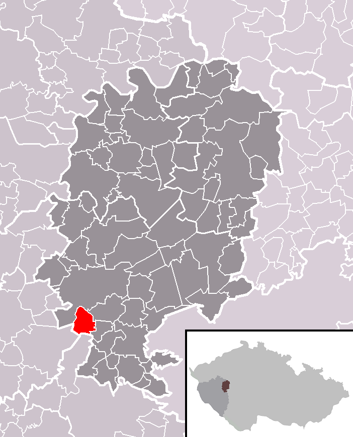 Location of Raková municipality within Rokycany District and within identical administrative area of Rokycany as a Municipality with Extended Competence.